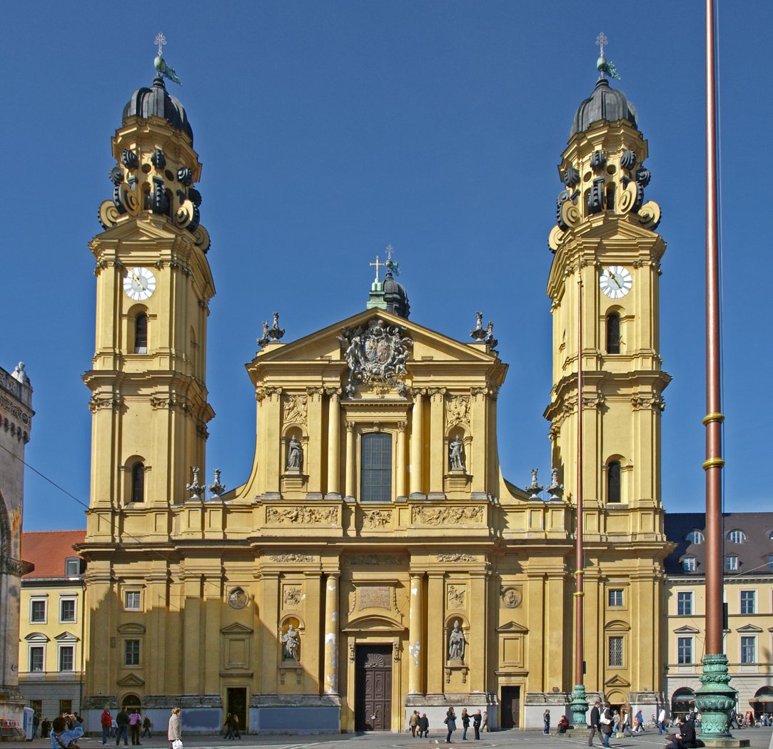 Munich (Germany), Church of the theatiner, photo 2008